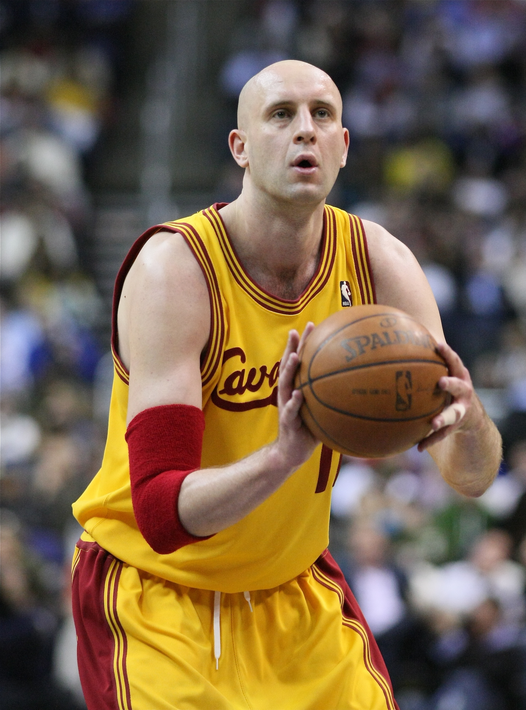 An image of Cleveland Cavaliers player Zydrunas Ilgauskas.